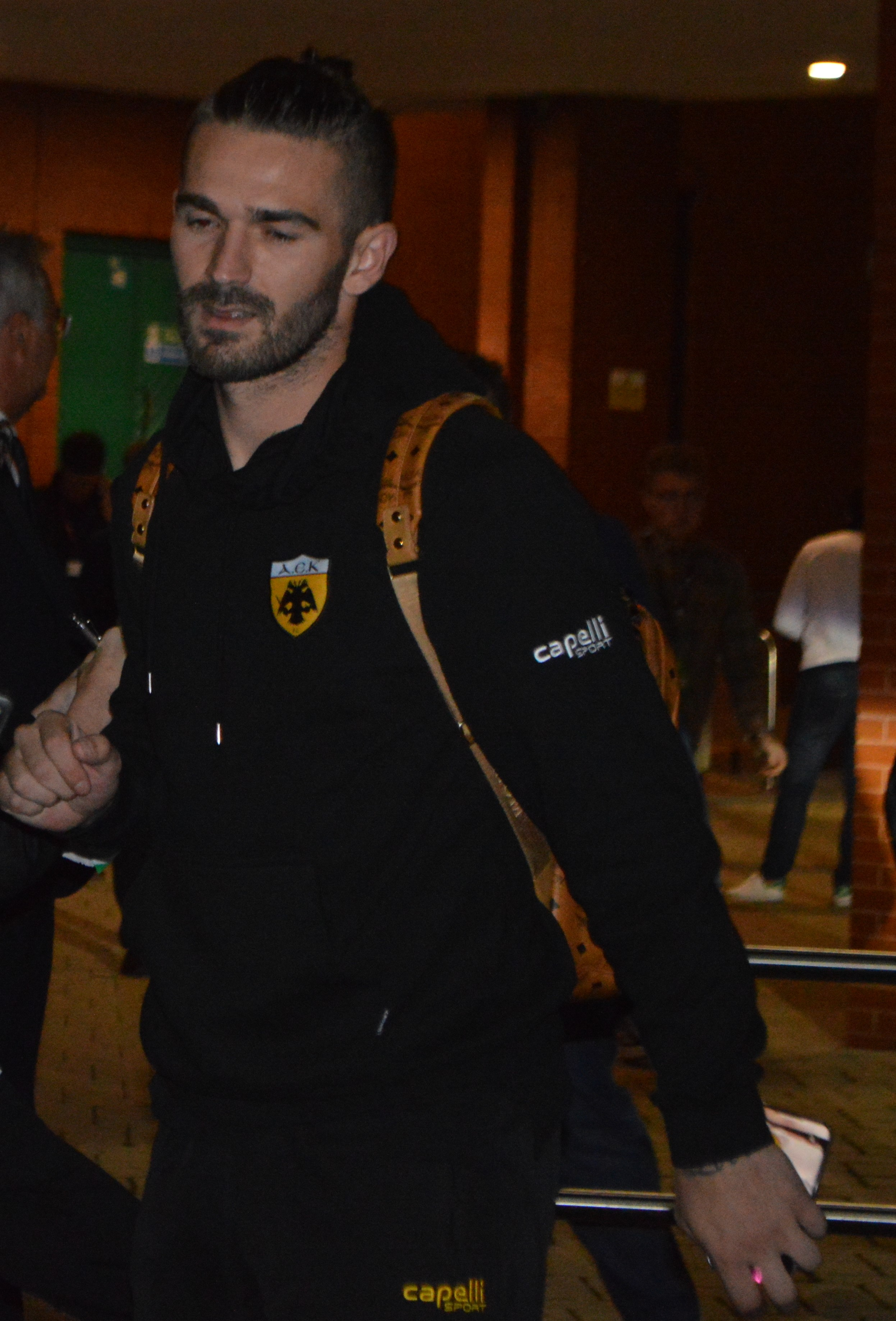 Livaja AEK Celtic